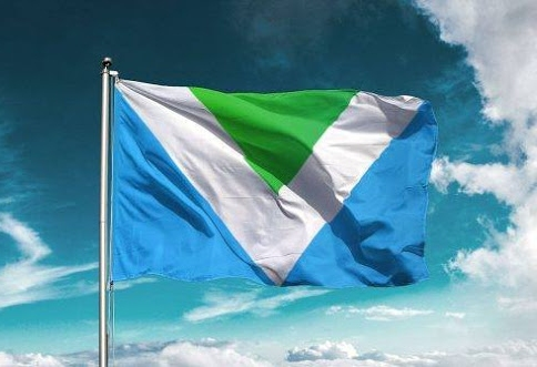 visualization of the Vegan Flag